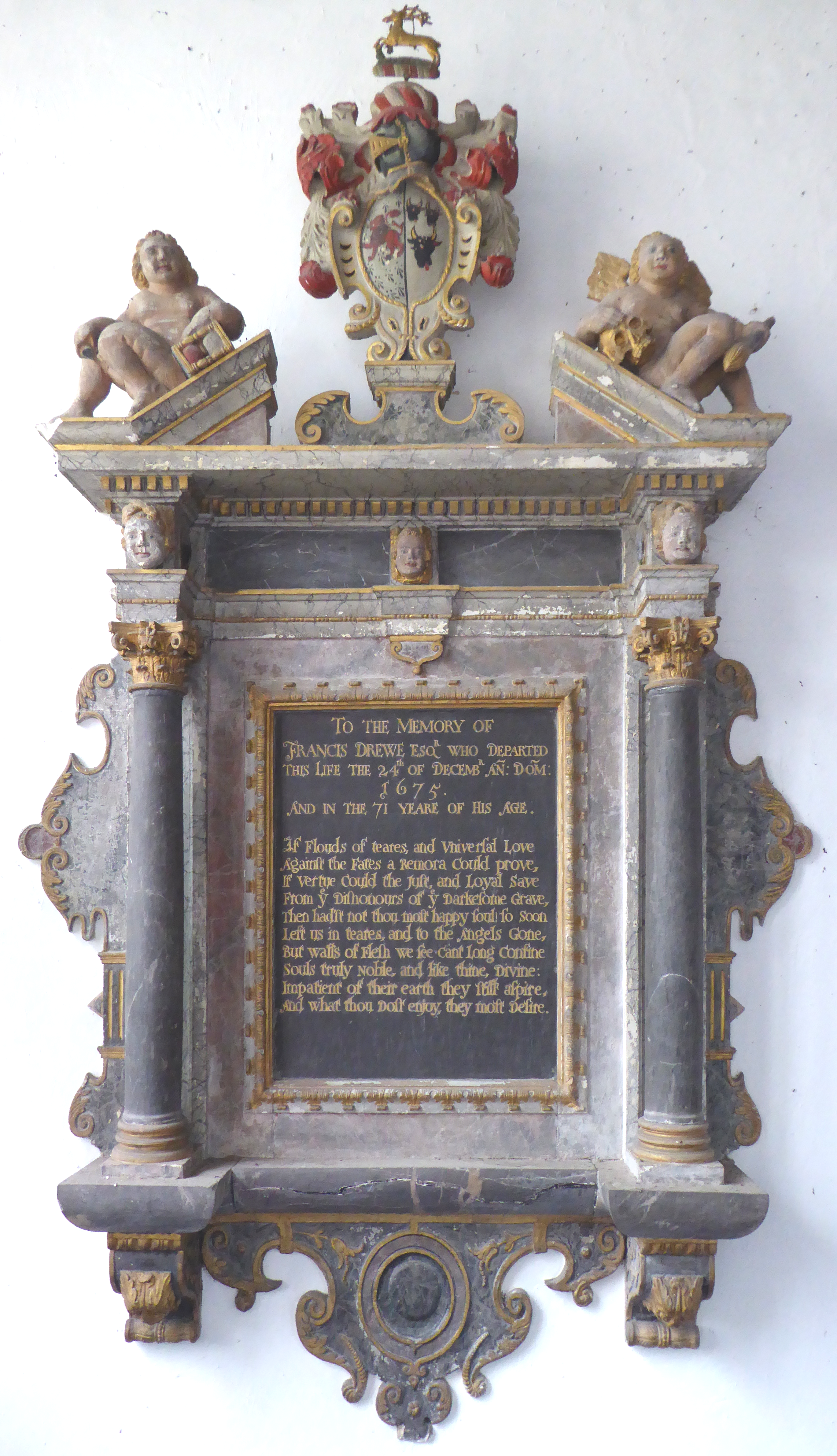 Mural monument to Francis Drewe (1604–1675) of The Grange in the parish of Broadhembury, Devon. South wall of nave, Broadhembury Church. He married Mary Walrond (died 1699), 2nd daughter of Richard Walrond of Ilbrewers,[5] descended in a junior line from the Walronds of Sea, Ilminster, Somerset, themselves a junior branch of the Walronds of Bradfield, Uffculme in Devon. Displaying arms of Drew (Ermine, a lion passant gules) impaling Walrond (Argent, three bull's heads cabossed sable armed or) with crest of Drewe above (On a mount verty a stag trippant or). (Source: Vivian, Lt.Col. J.L., (Ed.) The Visitations of the County of Devon: Comprising the Heralds' Visitations of 1531, 1564 & 1620, Exeter, 1895) Inscribed: "To the memory of Francis Drewe Esqr who departed this life the 24th of Decembr An(no) Dom(ini) 1675 and in the 71 yeare of his age. If flouds of teares and universal love Against the Fates a Remora could prove If vertue could the just and loyal save From ye dishonours of ye darkesome grave Then had'st not thou most happy soul so soon Left us in teares and to the angels gone But walls of flesh we see can't long confine Souls truly noble and like thine divine Impatient of their earth they still aspire And what thou dost enjoy they most desire.